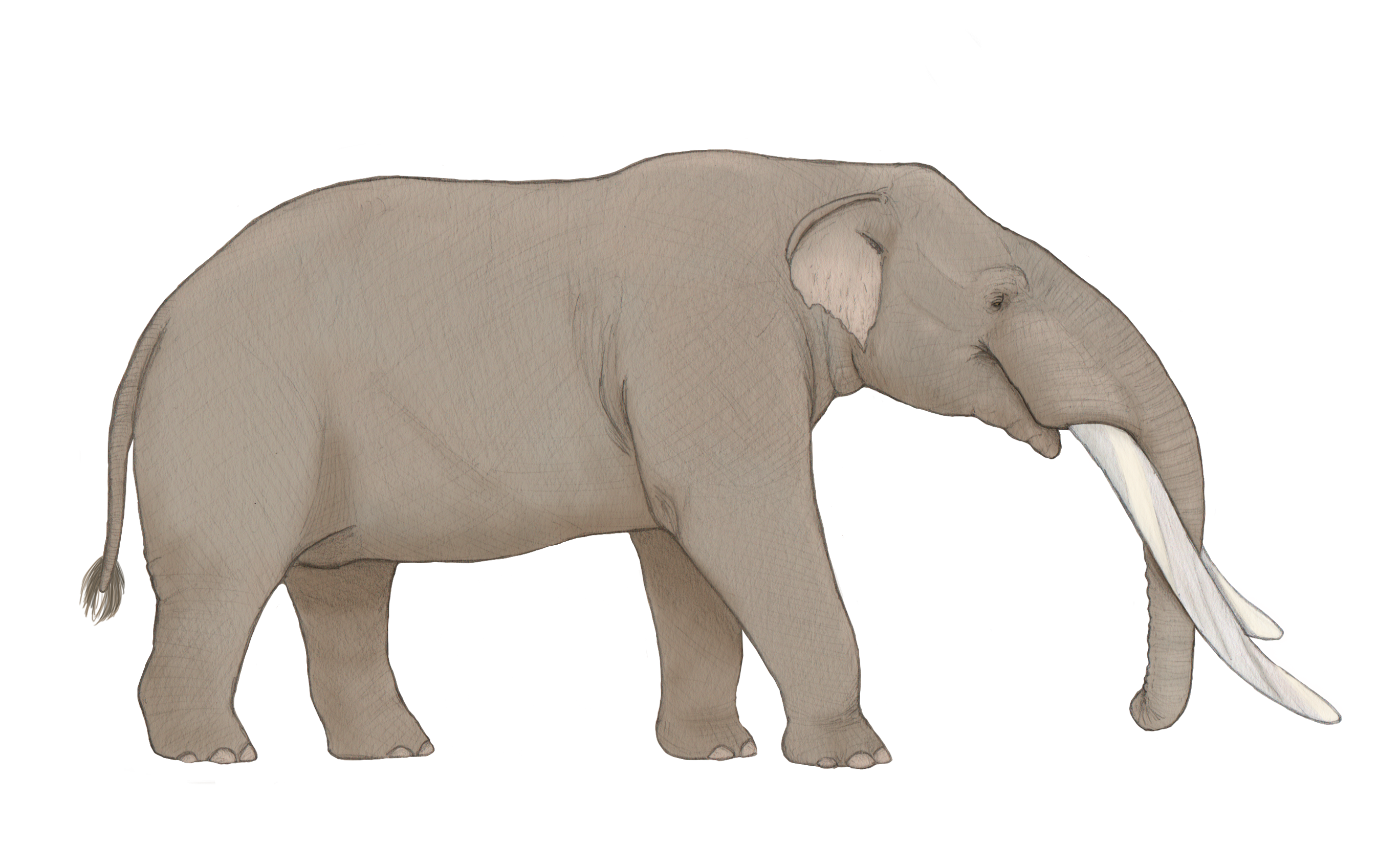 Extint proboscidean of the Gonphotheriidae family, advised by Roberto Diaz Sibaja